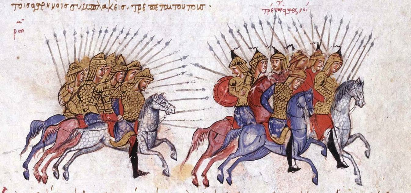 Byzantine cavalry driving the Arabs to flight, from the Madrid Skylites, Fol. 54v